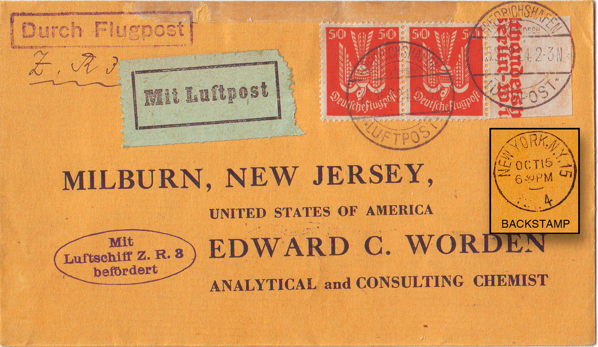 Cover flown on the delivery flight from the Zeppelin Company works in Friedrichshafen, Germany, to NAS Lakehurst, NJ, of the US Navy Zeppelin airship USS Los Angeles (ZR-3, ex-D-LZ 126), October 12-15, 1924 (with backstamp overlay on image)